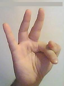 A book about didactic of maths in a mixed class environment